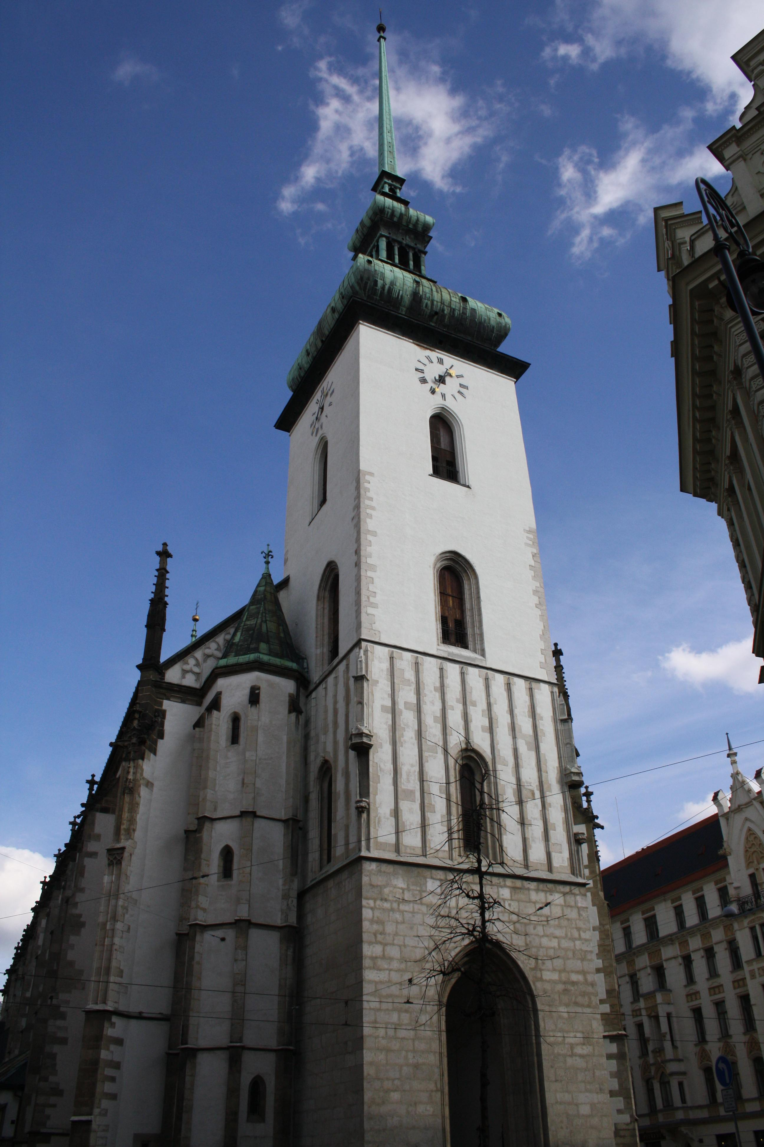 Church tower of St. Jacob church in Brno-Center.